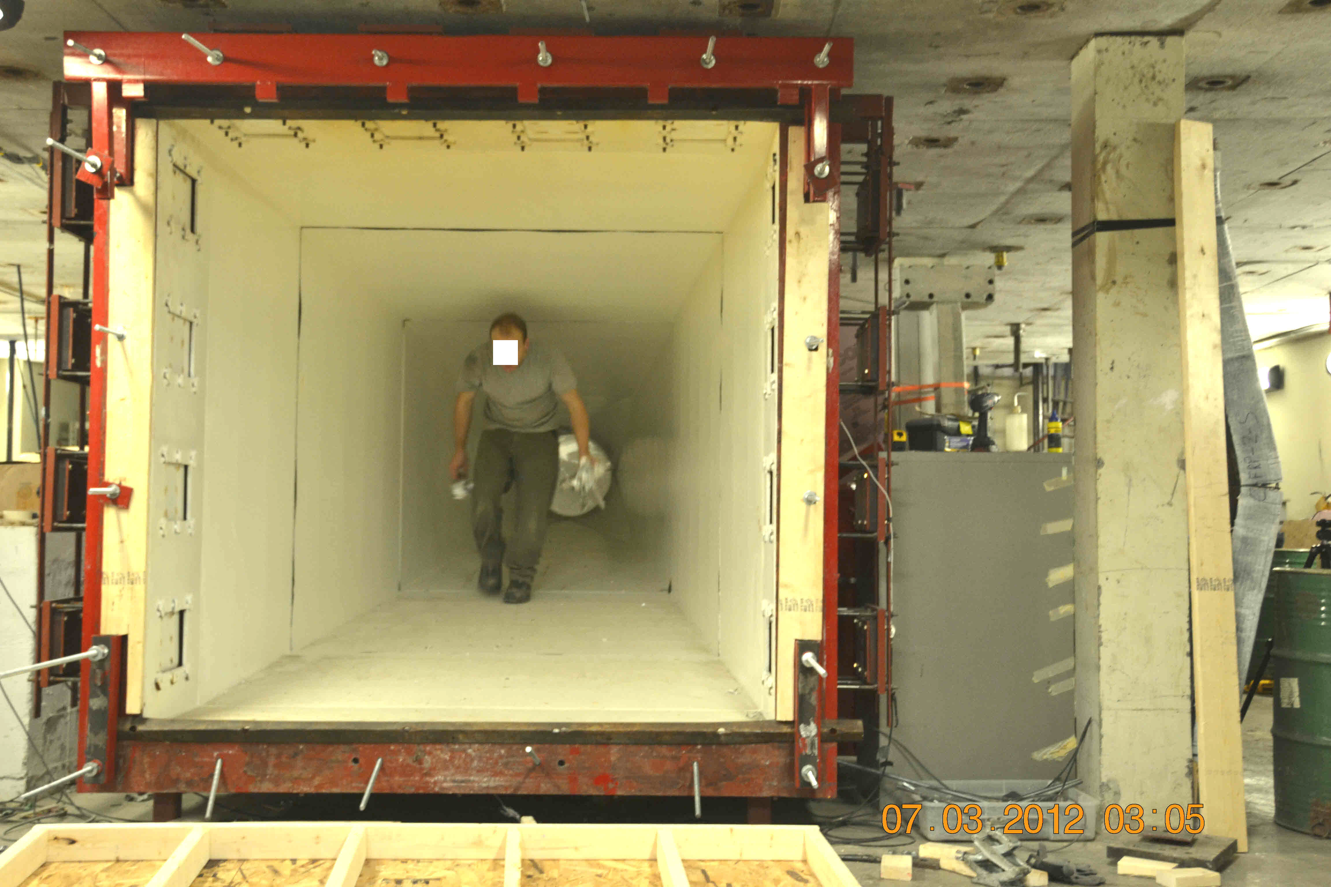 Shock Tube for explosion testing of building components – This is an R/D tool that is acceptable for seeing the effects of shock waves without fire, heat or shrapnel.